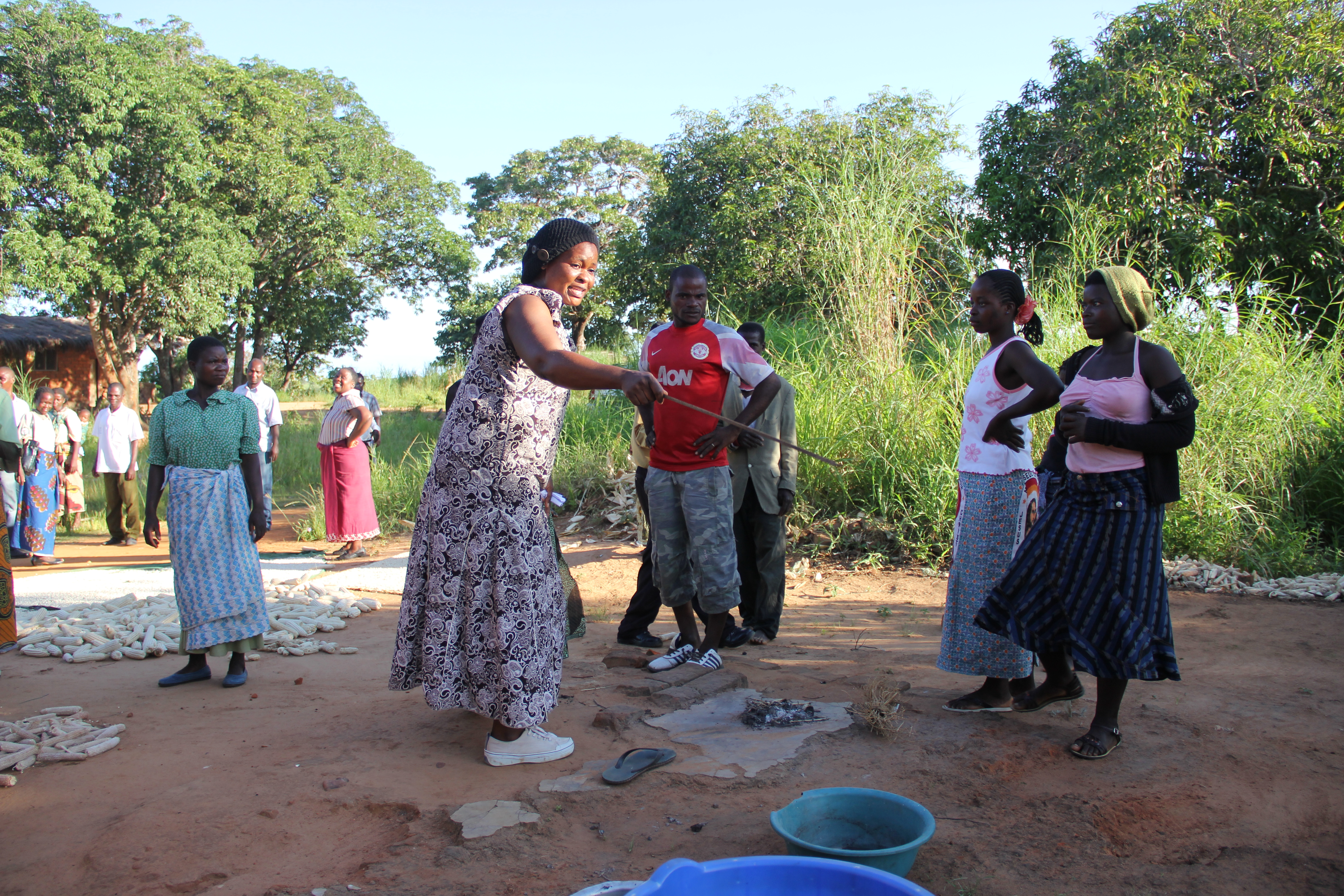 The next stop on the transect walk is the place where meals are prepared. Flies are attracted to human feces and carry diseases by landing on the food.